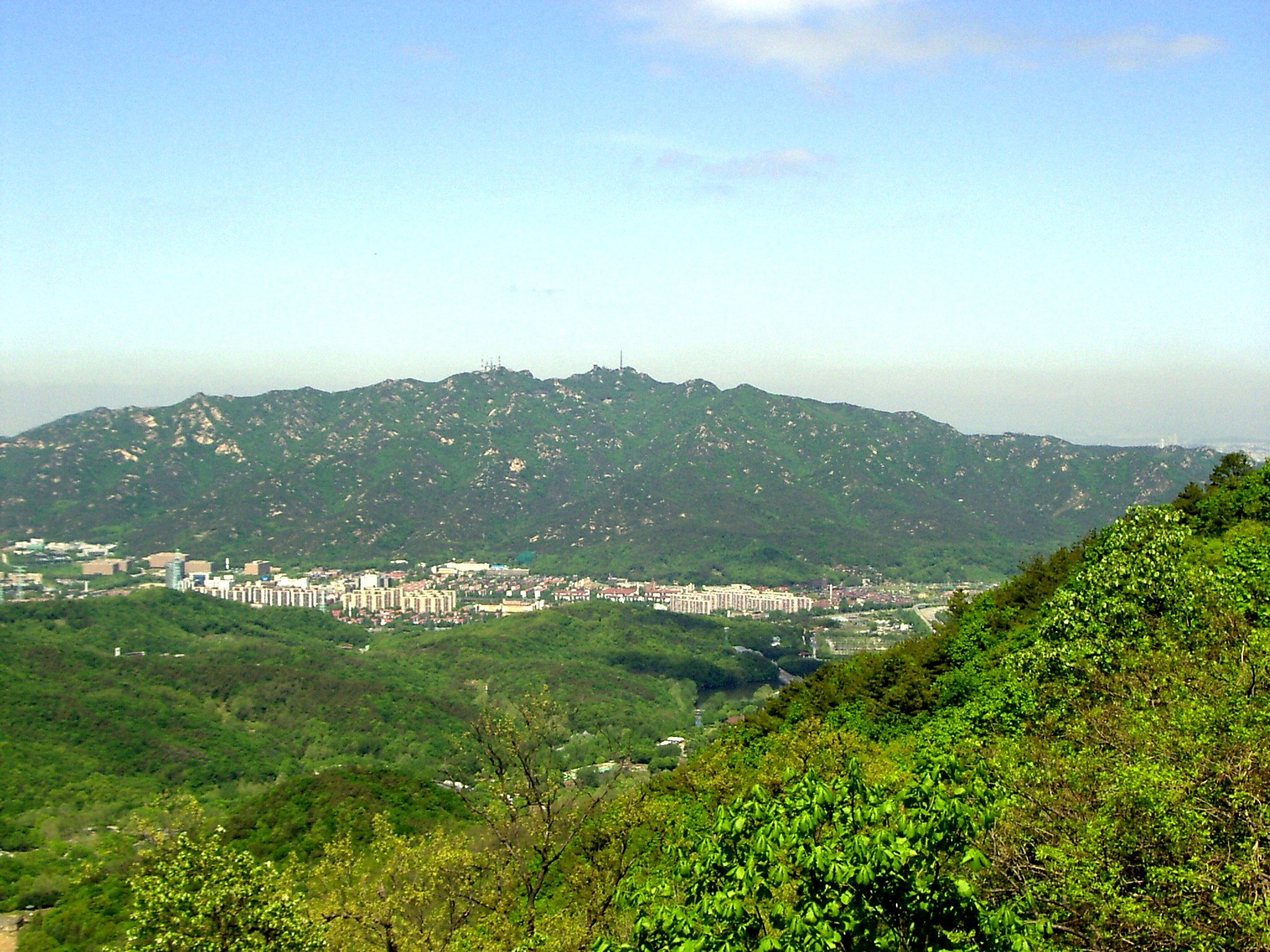 The photo shows the 632 m high Gwanaksan with its radar observatory on the summit. Gwanaksan is located in the southern suburbs of Seoul in South Korea. This picture was taken from Cheonggyesan, which is a mountain range East of Gwanaksan.